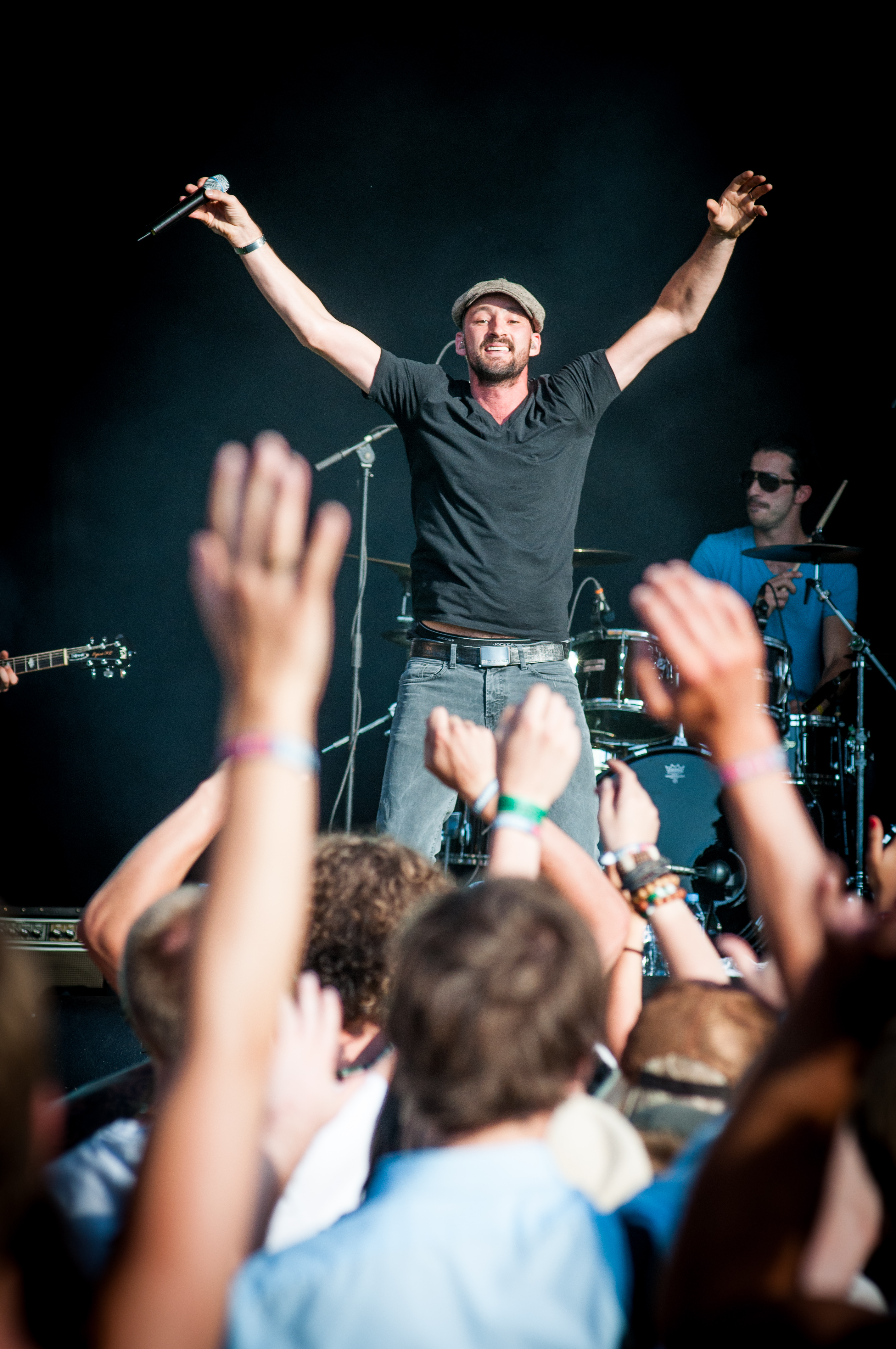 German reggae artist Gentleman performing at the 2011 Ilosaarirock festival in Joensuu, Finland.